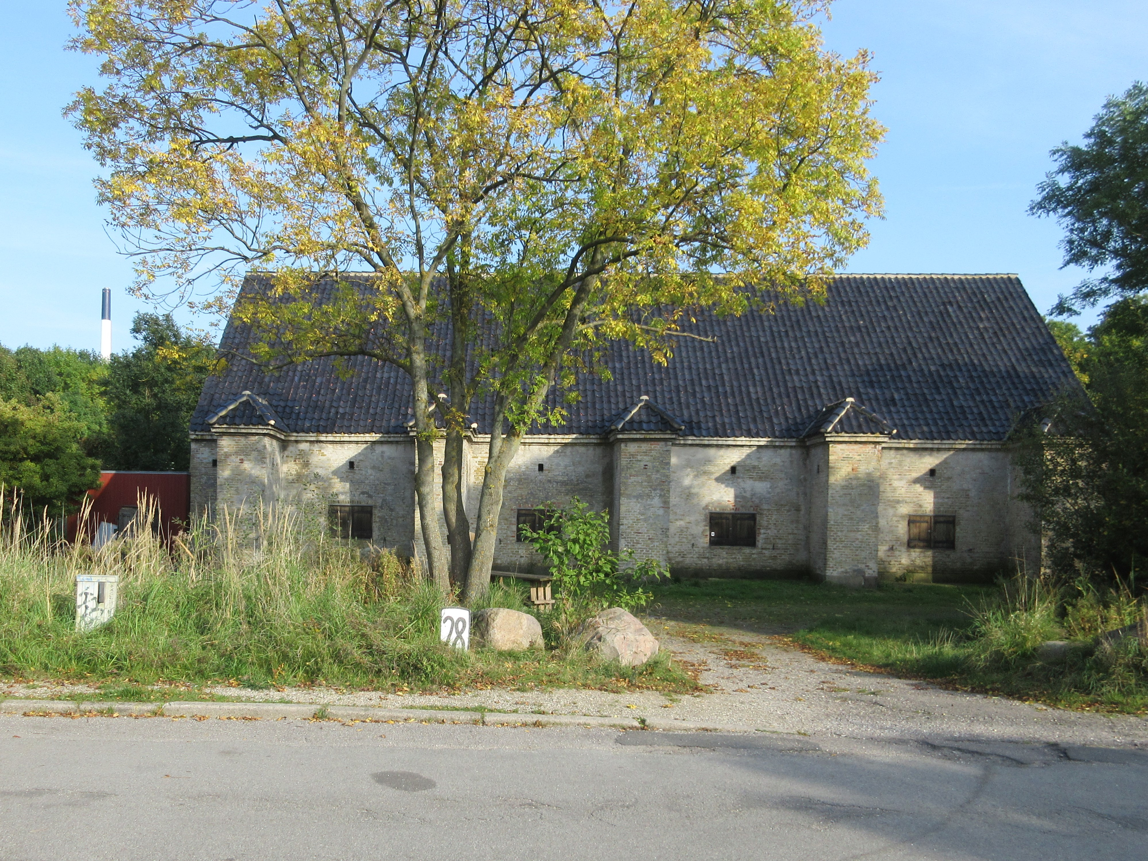 Krudthuset, Frederiks Bastion, Christiania un Copenhagen, Denmark